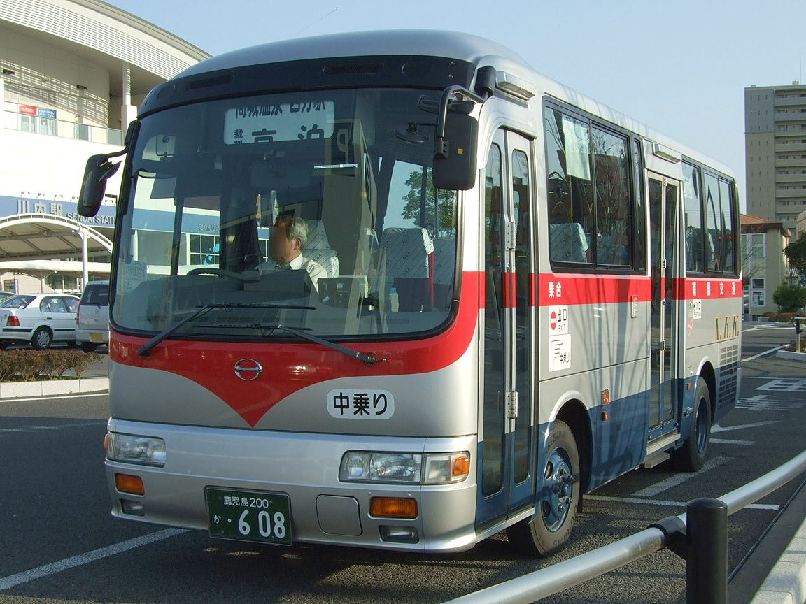 Nangoku Kotsu bus. See below.